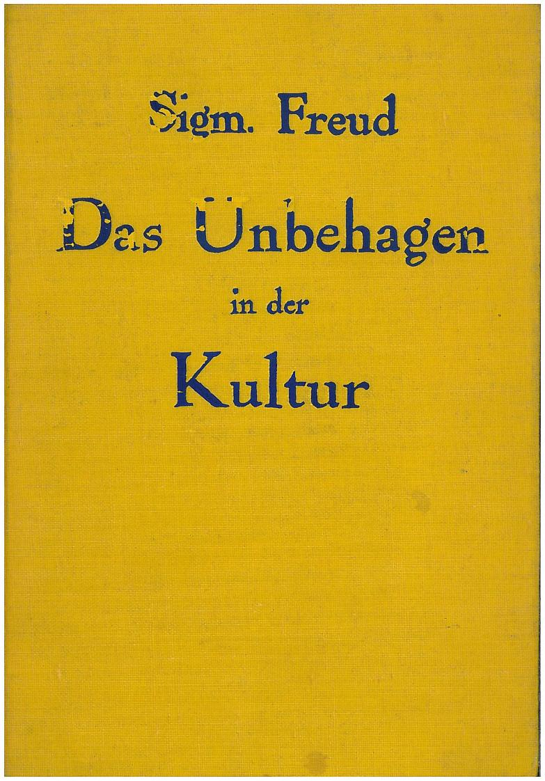 Cover of Freud, Das Unbehagen_in_der_Kultur, 1st ed